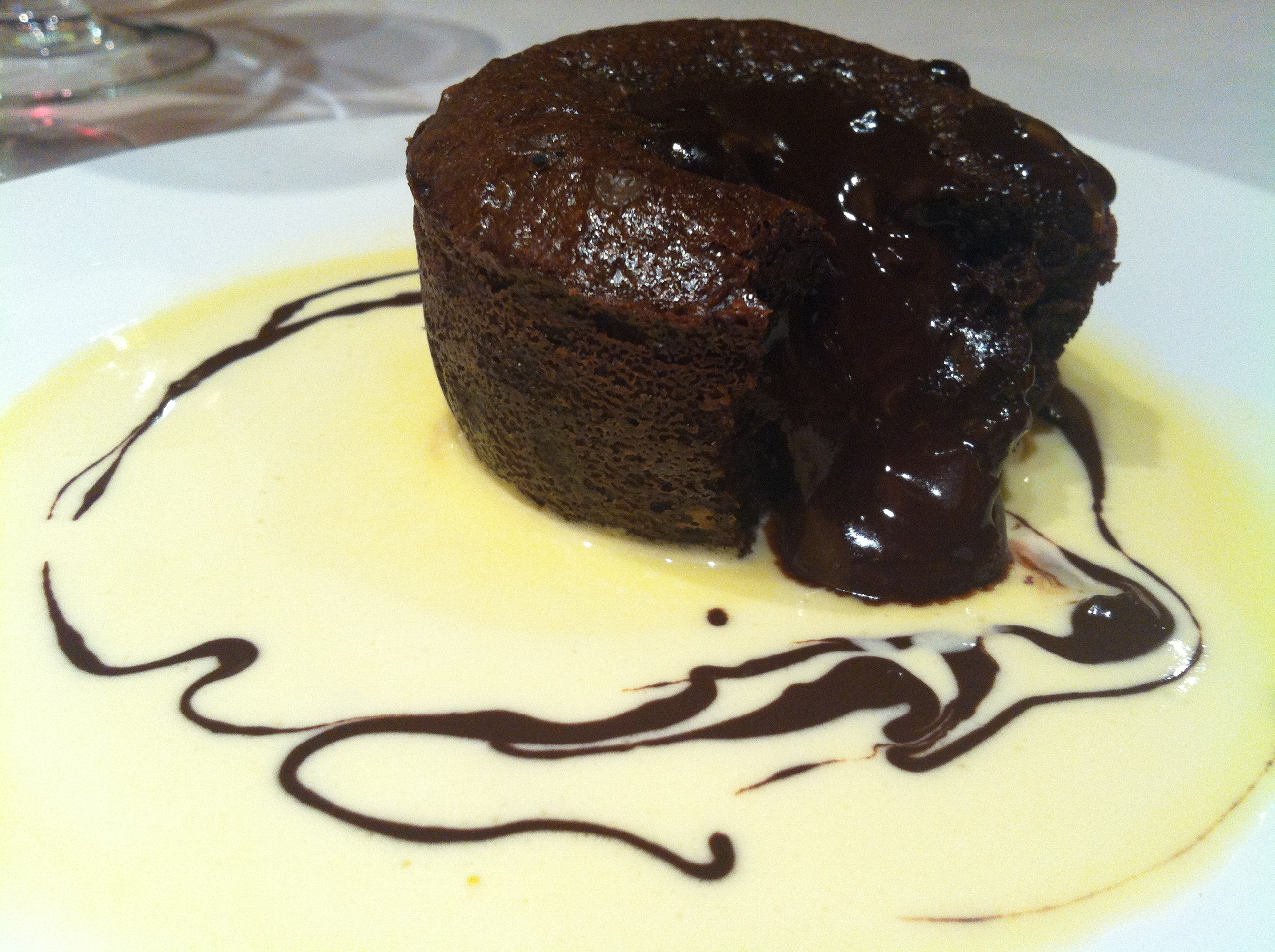 Coulant of Chocolate